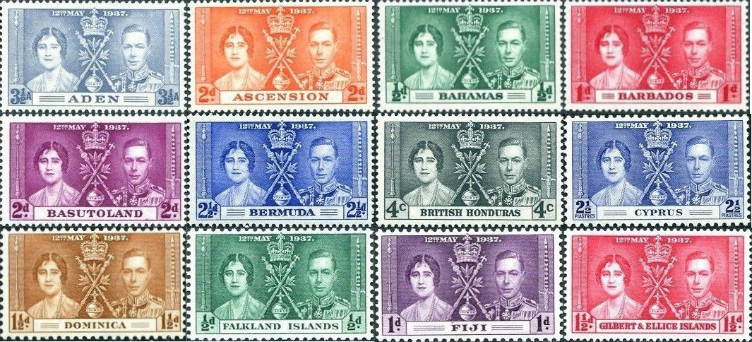 UK - 1937 - Omnibus